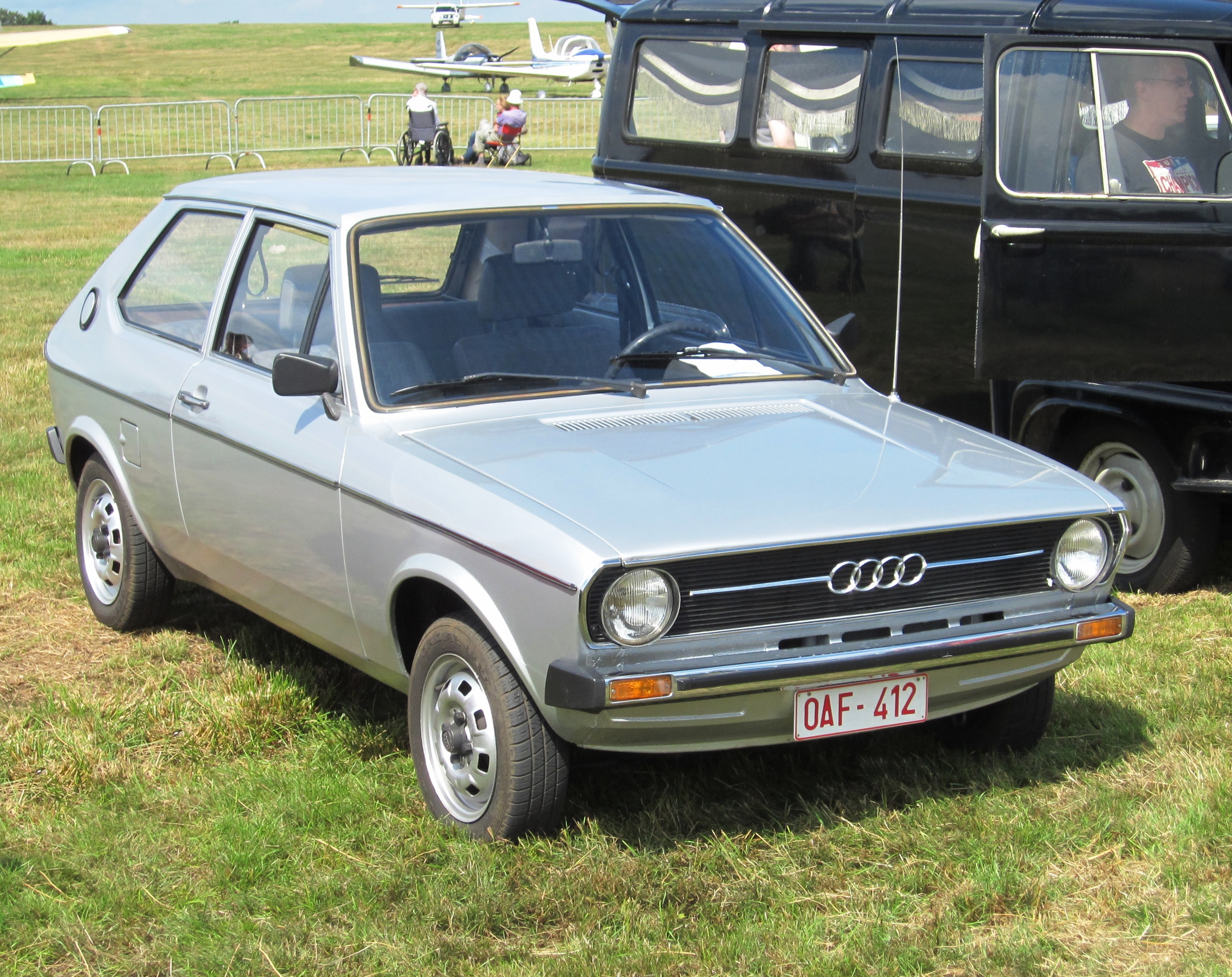 Audi 50 (ca 1976) Although the Renault Estafette parked along side is decorated as a hearse, it actually contained not a coffin but a motor-scooter